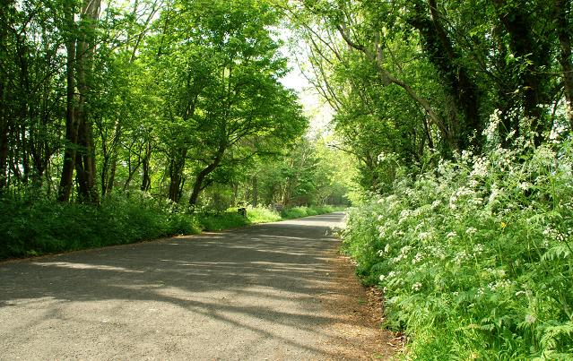 Lay-by near Ballybogey This tree-lined lay-by came about after the Benvardin Road (Ballybogey – Ballycastle) was realigned. The view is towards Ballybogey.